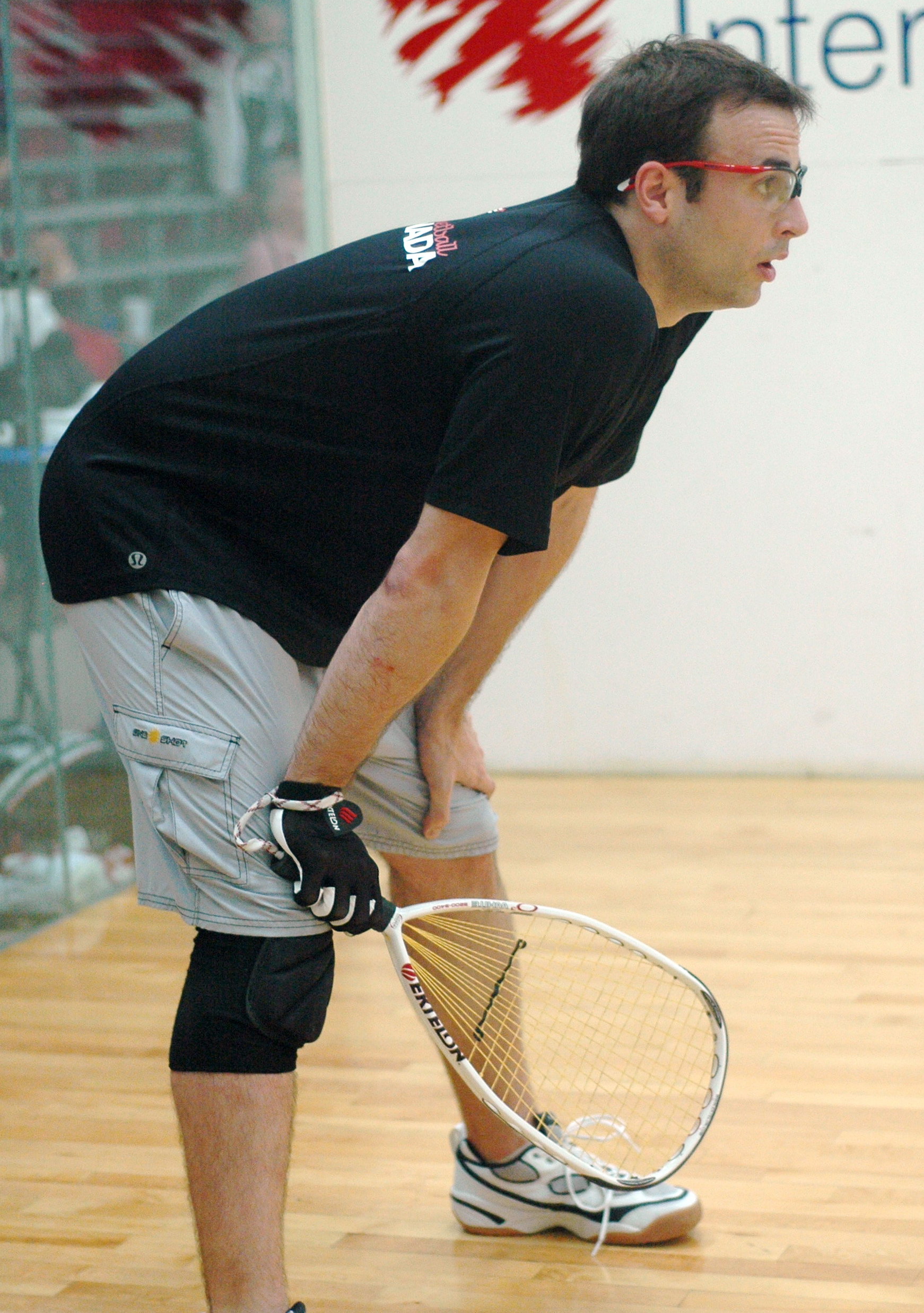 Vincent Gagnon at 2007 US Open Racquetball Championships in Memphis, Tennessee